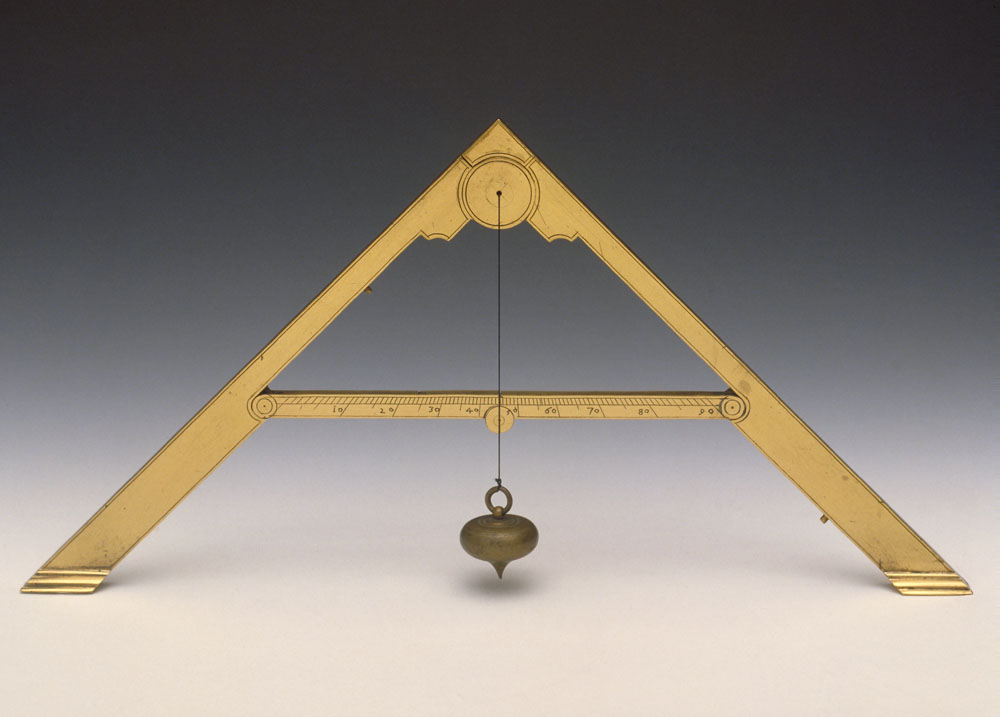 Author UnknownDescription